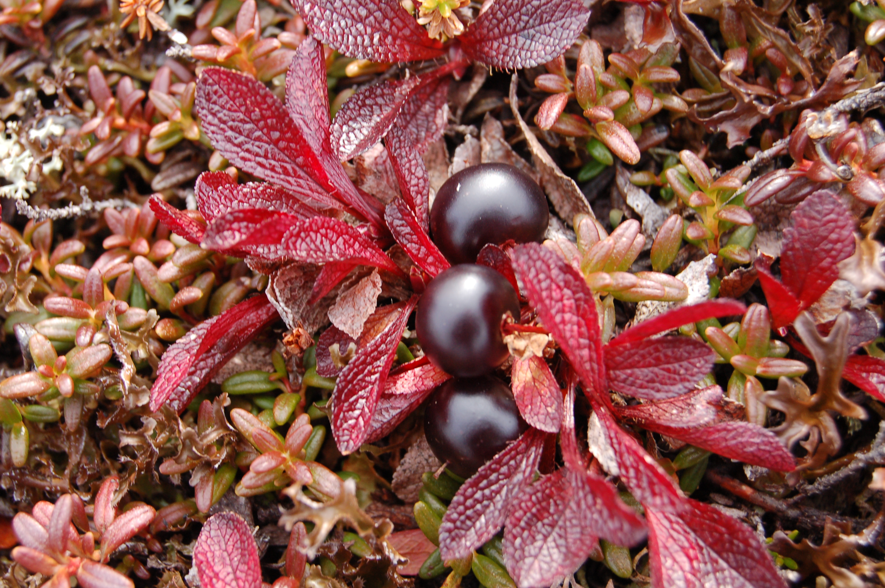 Alpine bearberry at Blefjell, Norway (Mountain Bearberry, Black Bearberry)